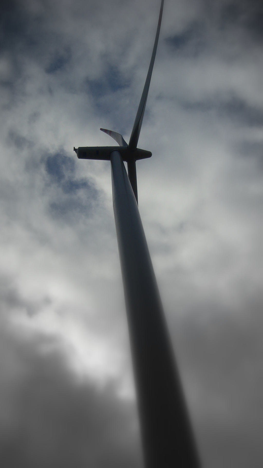 Windmills of RWE in Biała Woda